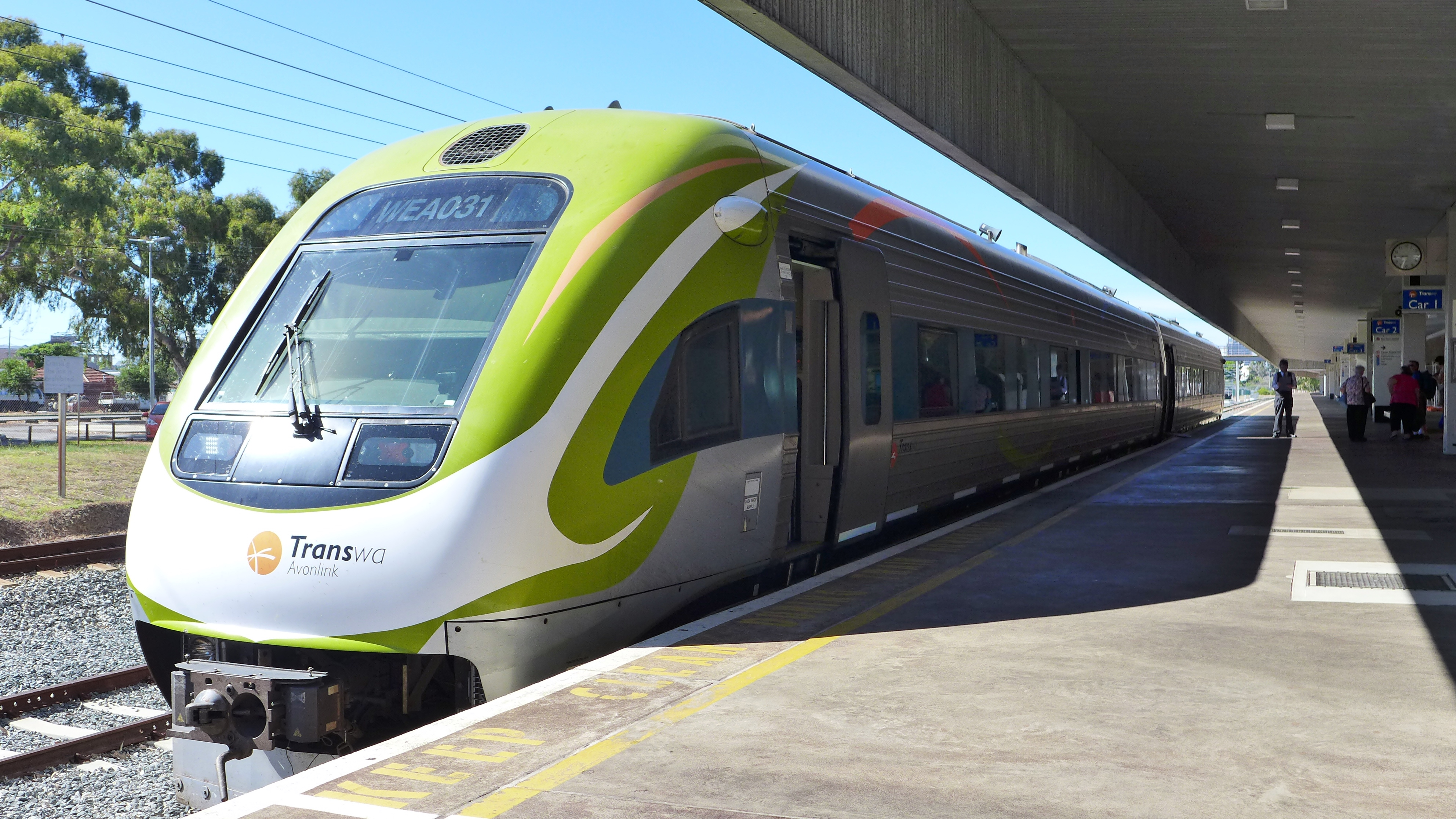 The MerredinLink, a Transwa train service from East Perth to Merredin, Western Australia, and return, awaits departure from East Perth. Since December 2014, this service has operated weekly.